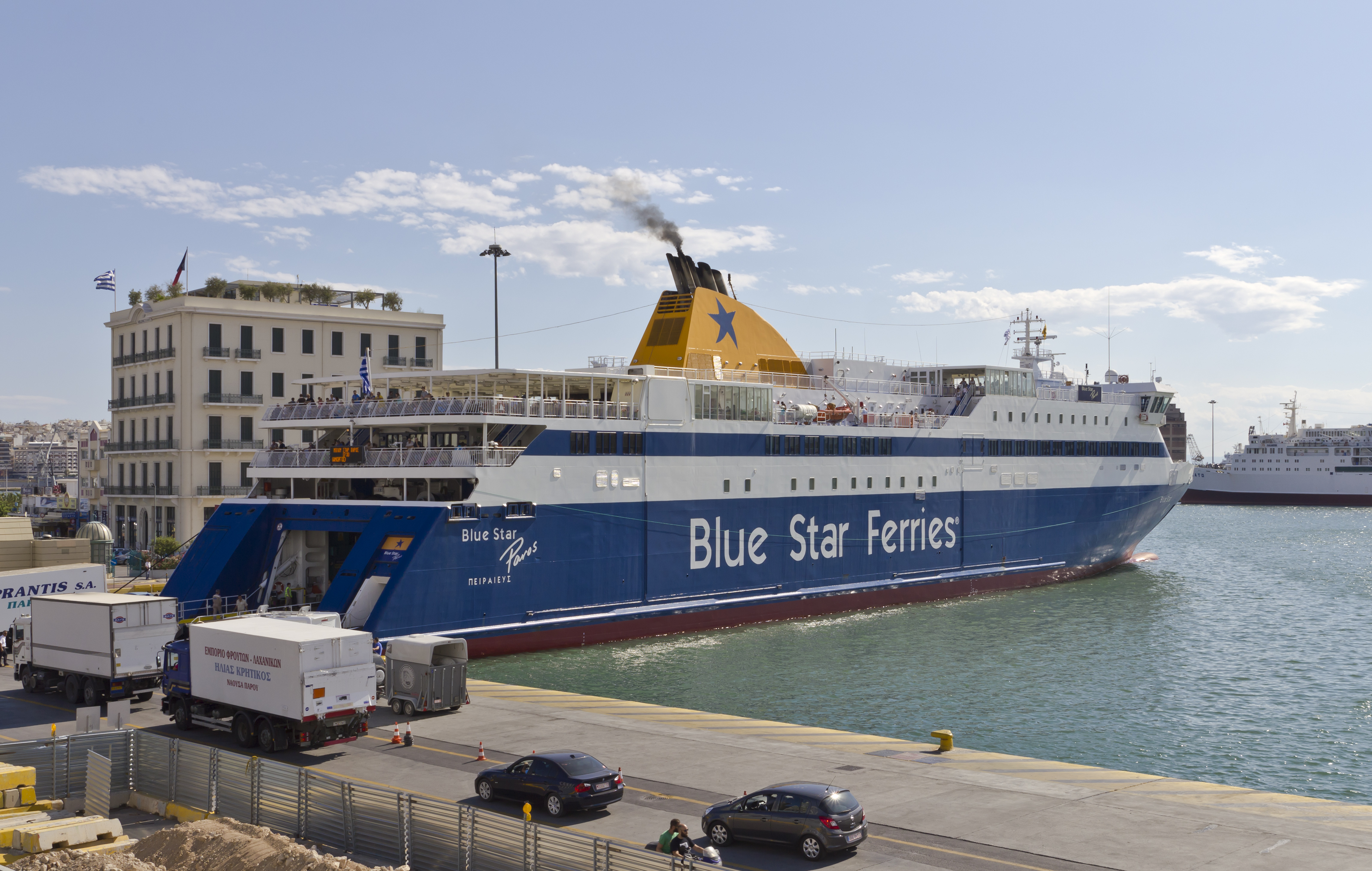 Ferry at the port of Piraeus (Attica, Greece)